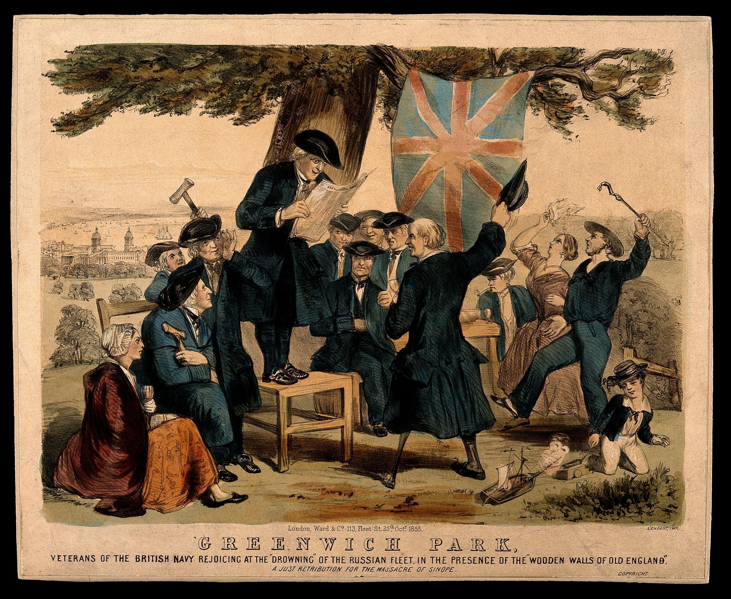 Pensioners of the Royal Naval Hospital, Greenwich, and others, celebrating the destruction of the Russian navy. Coloured lithograph, 1855. Iconographic Collections Keywords: Royal Hospital for Seamen at Greenwich; royal naval hospital; ic; greenwich; John Burnet